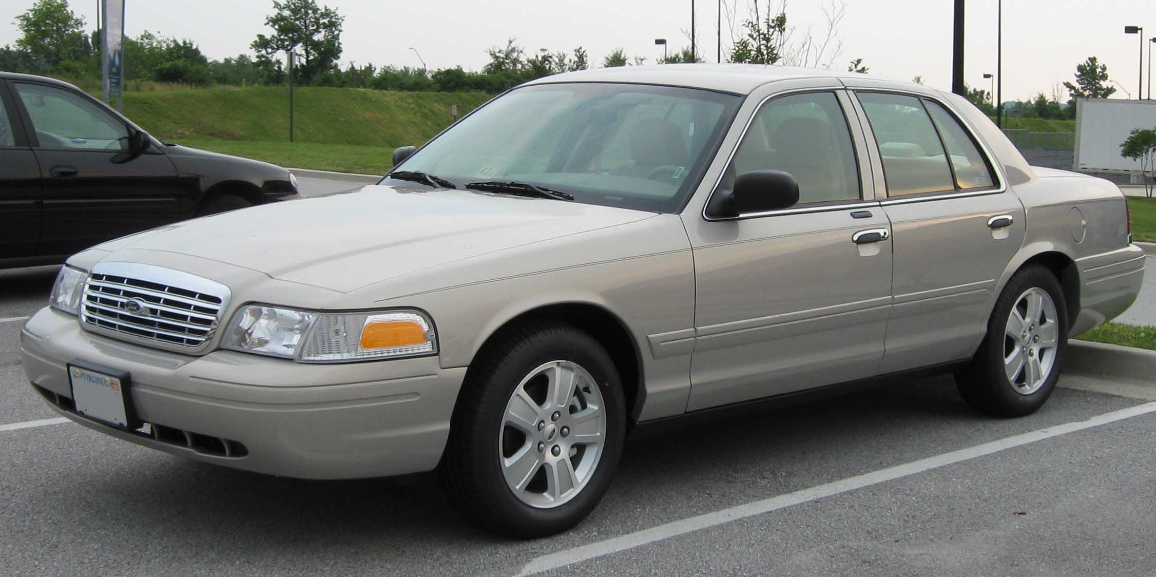 2007 Ford Crown Victoria photographed in College Park, Maryland, USA.